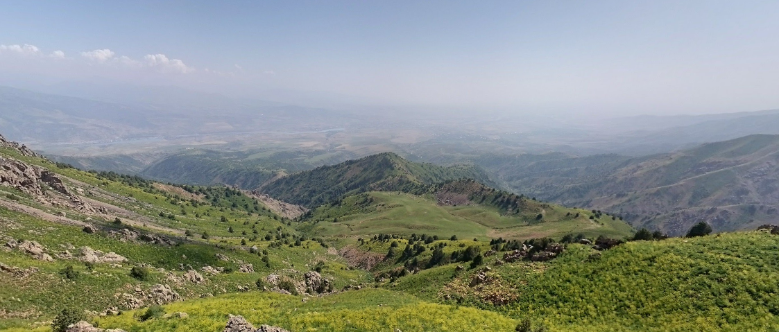 Gissar range panoramio (Uzbekistan)